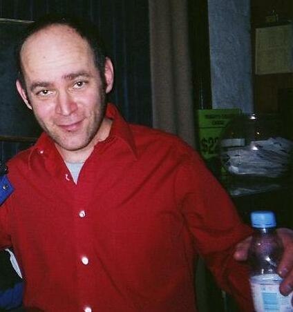 A personal photo I took from when he was at Zanies in Feb. 2006.